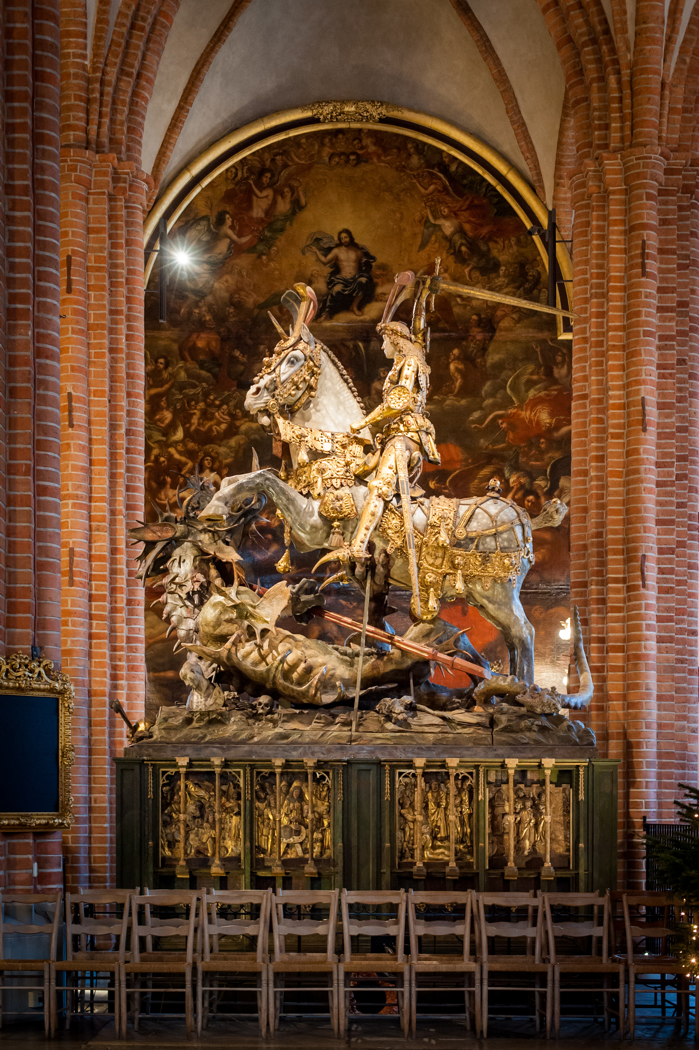 A piece of art in the Storkyrkan church in Stockholm, Sweden.